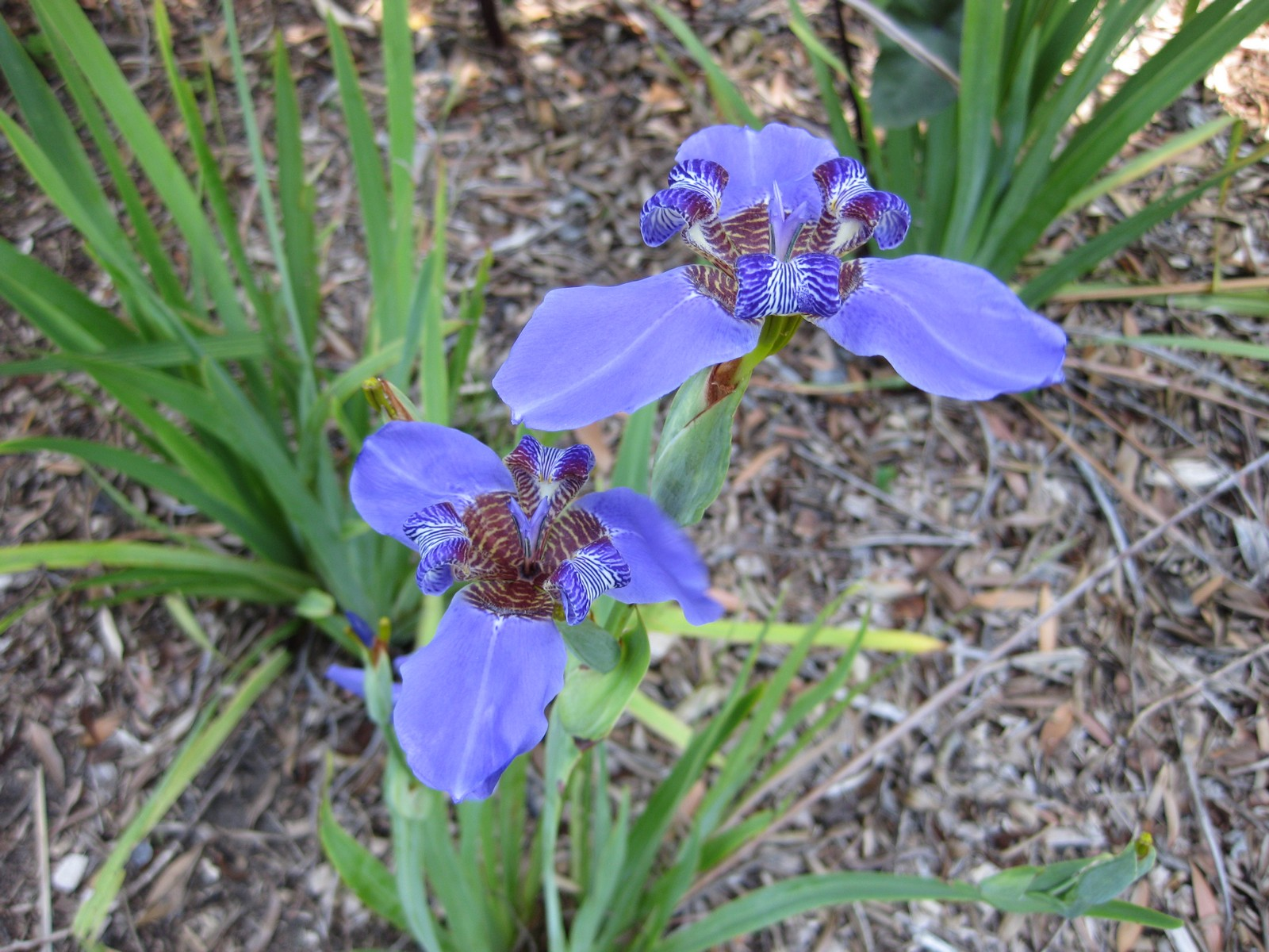 Neomarica caerulea photographed at the Royal Botanic Gardens Melbourne (Australia) in December